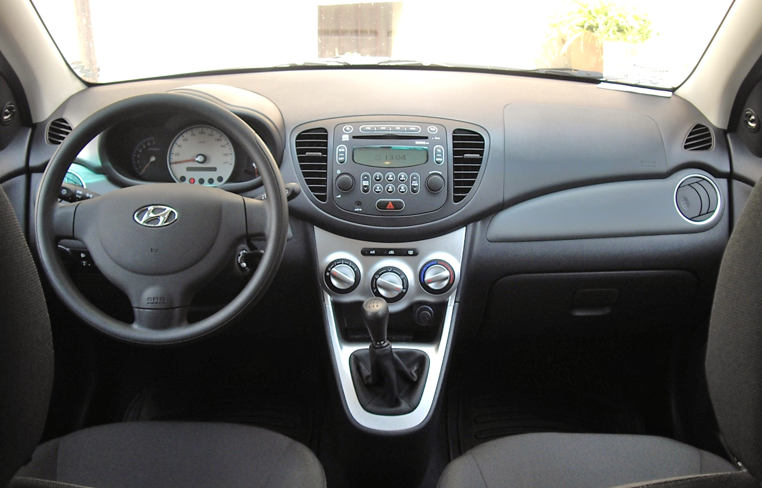 Hyundai i10 Active